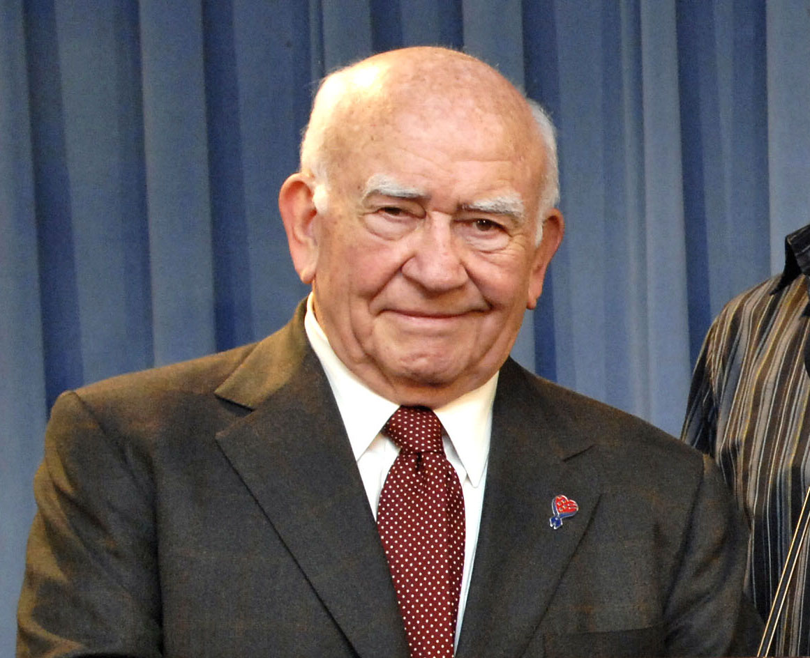 Ed Asner during a tour of the Pentagon